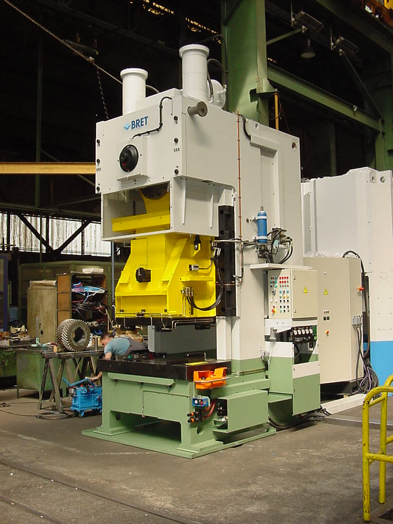 Machanical press